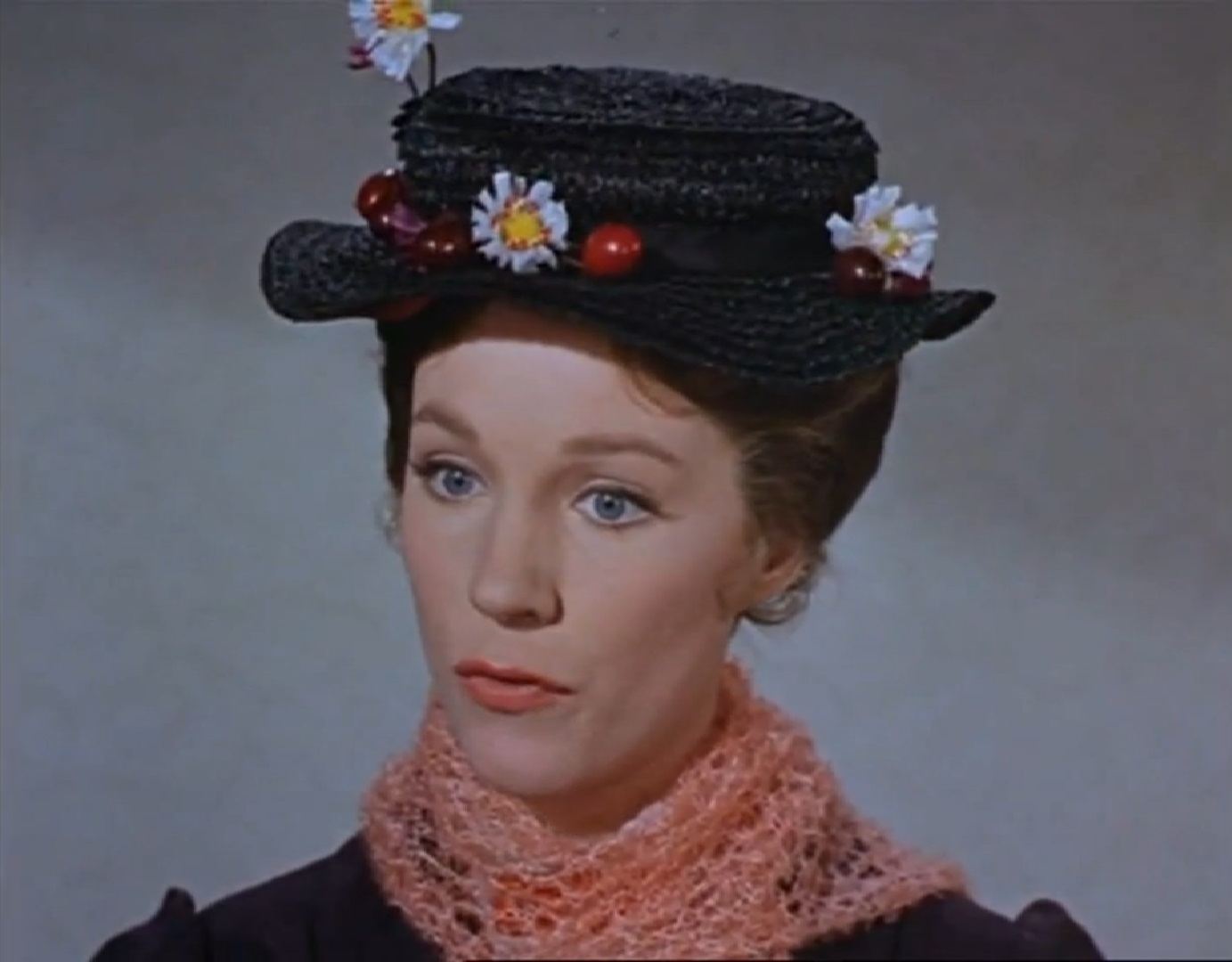 Screenshot of Julie Andrews from the trailer for the film Mary Poppins